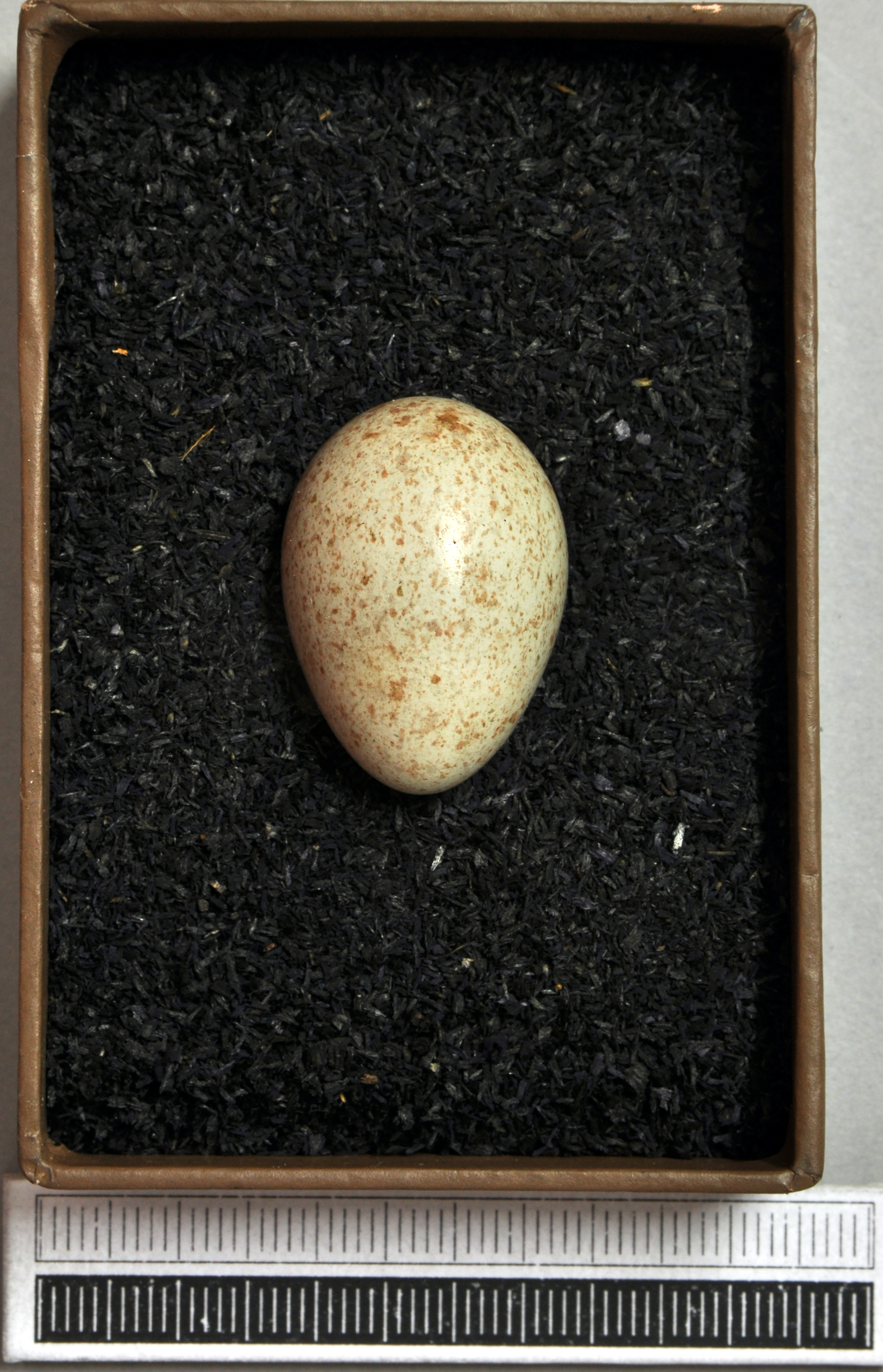 Eyebrowed thrush Turdus obscurus , egg, Coll. Museum Wiesbaden